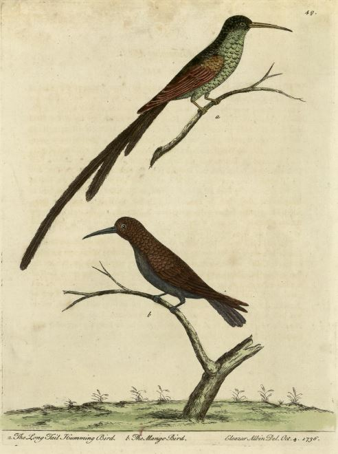 Trochilus polytmus = The Long Tail Humming Bird Anthracothorax mango = Mango Bird Illustration Eleazar Albin (c.1680-c.1742).